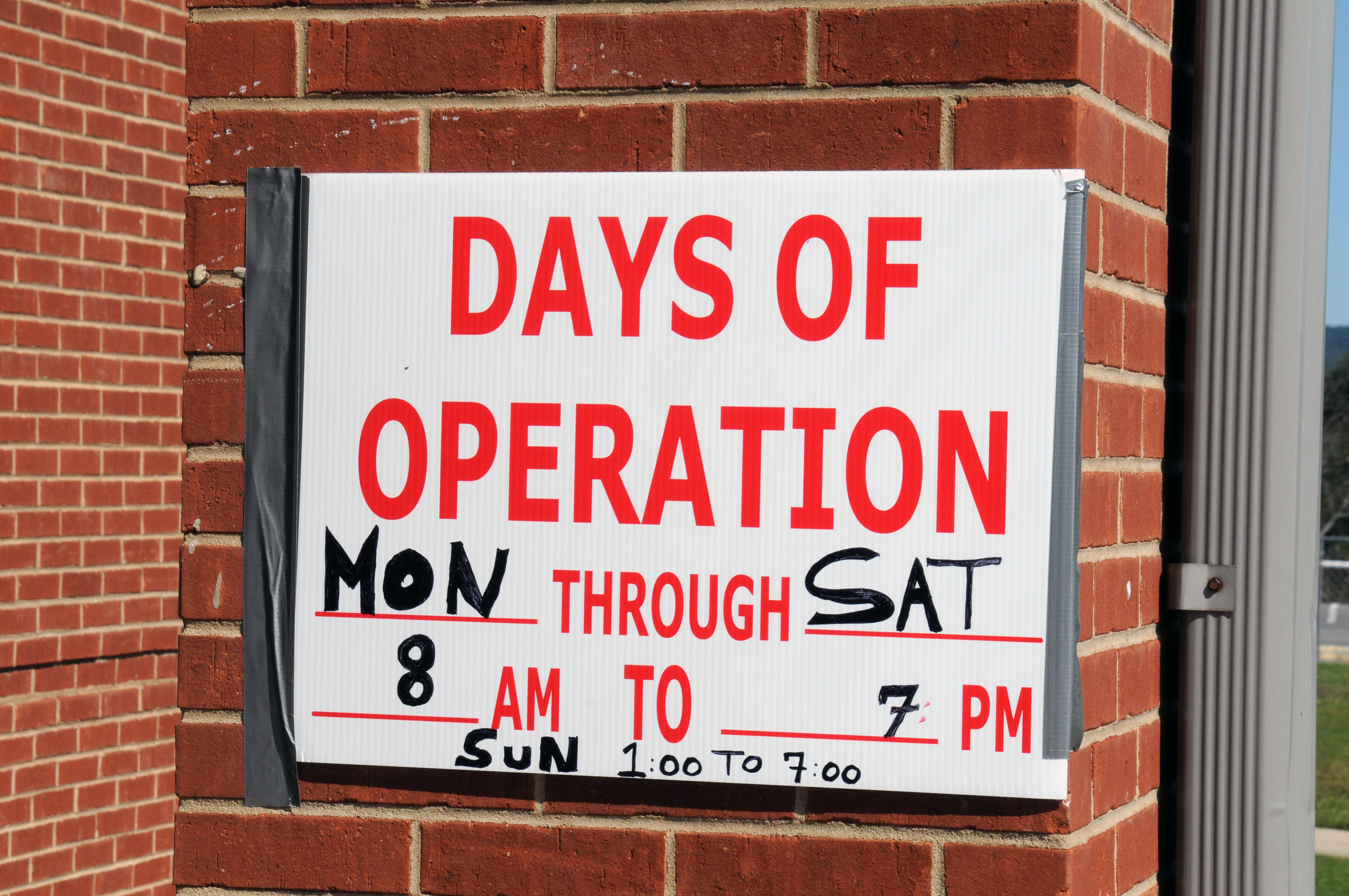 Trion, GA, October 3, 2009 -- Signs are placed at the Chattooga State/FEMA Disaster Recovery Center to advise hours of operation. The Center is a central location of disaster services for those affected by recent storms and flooding. George Armstrong/FEMA